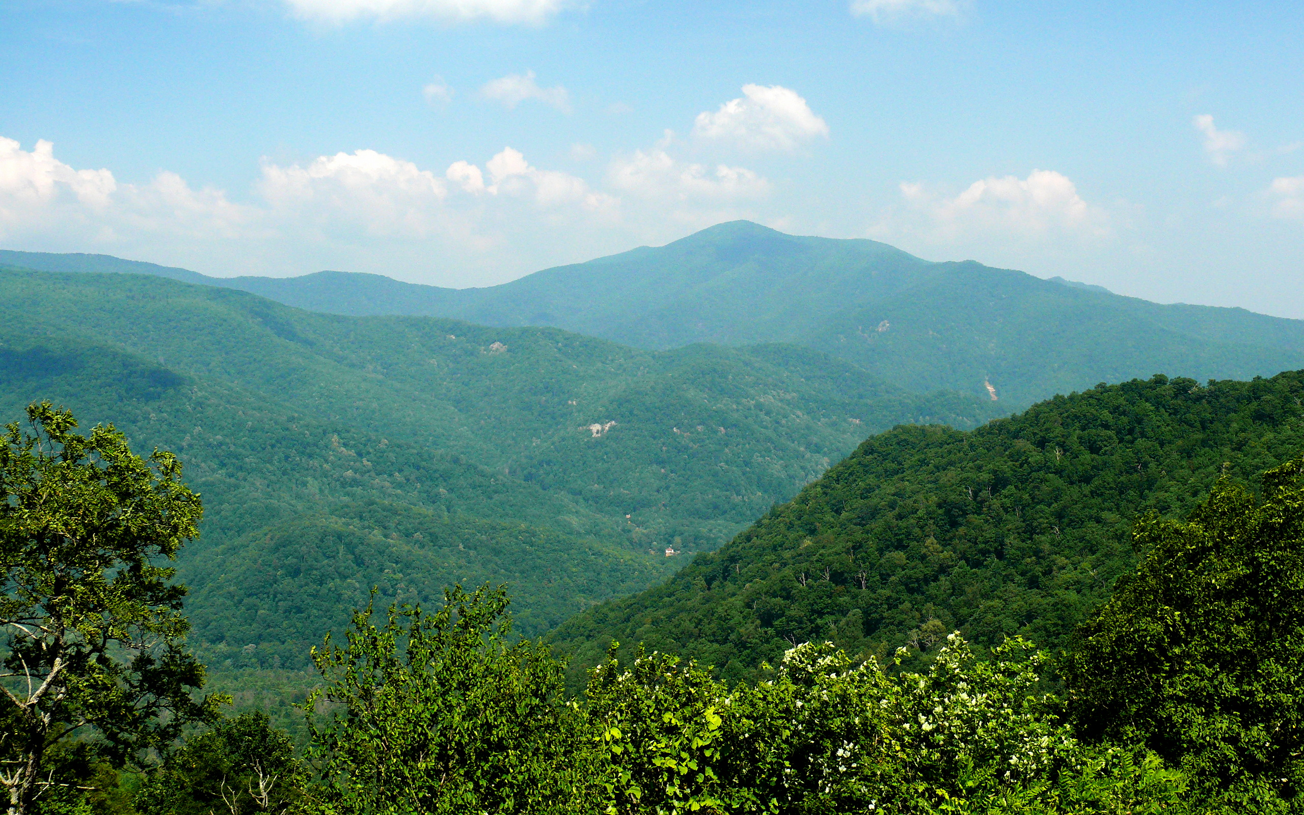 Cold Mountain (the title character of Charles Frazier's 1997 debut novel Cold Mountain) in the Shining Rock Wilderness area, as seen from mile marker 412 on the Blue Ridge Parkway. Photo taken with a Panasonic Lumix DMC-FZ50 in Haywood County, NC, USA.